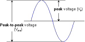 Average voltage